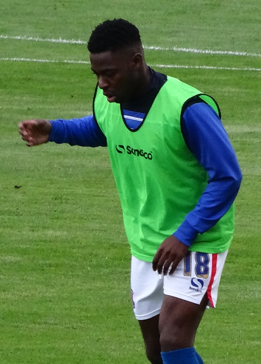 Kevin Osei playing for Carlisle United against York City at Bootham Crescent, York on 19 September 2015